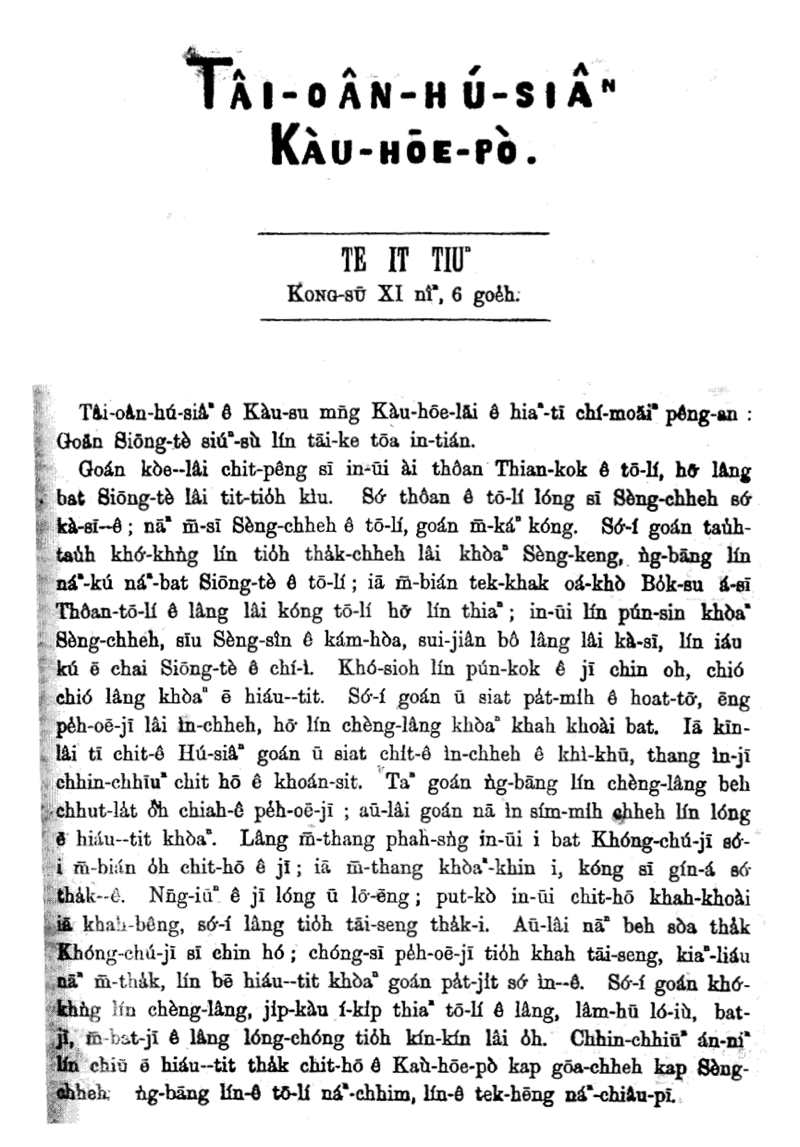 First page of the first edition of the Tai-oan-hu-siann Kau-hoe-po from 1885